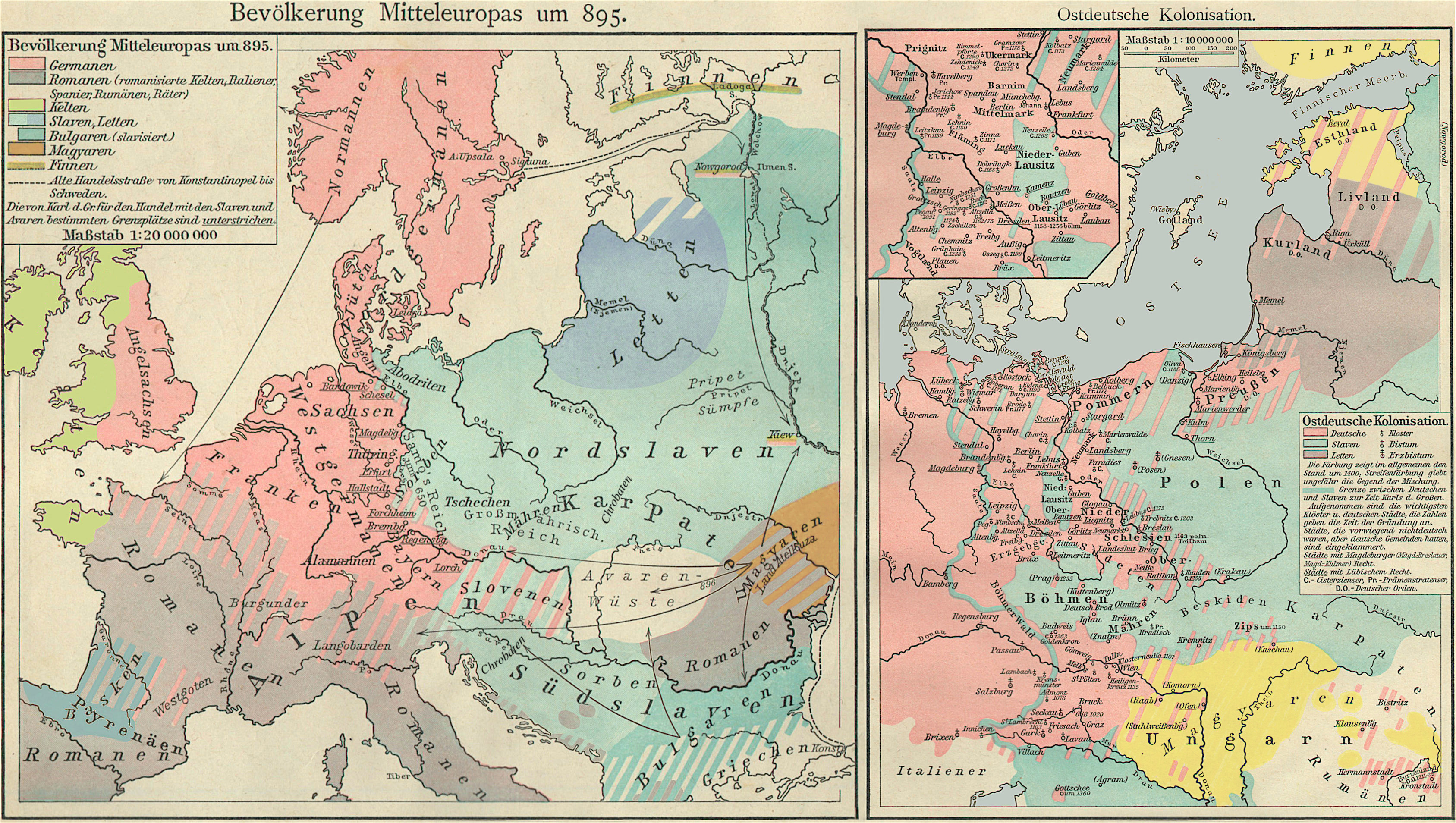 German map of the German & others populations & settlements in the early Middle-Age.